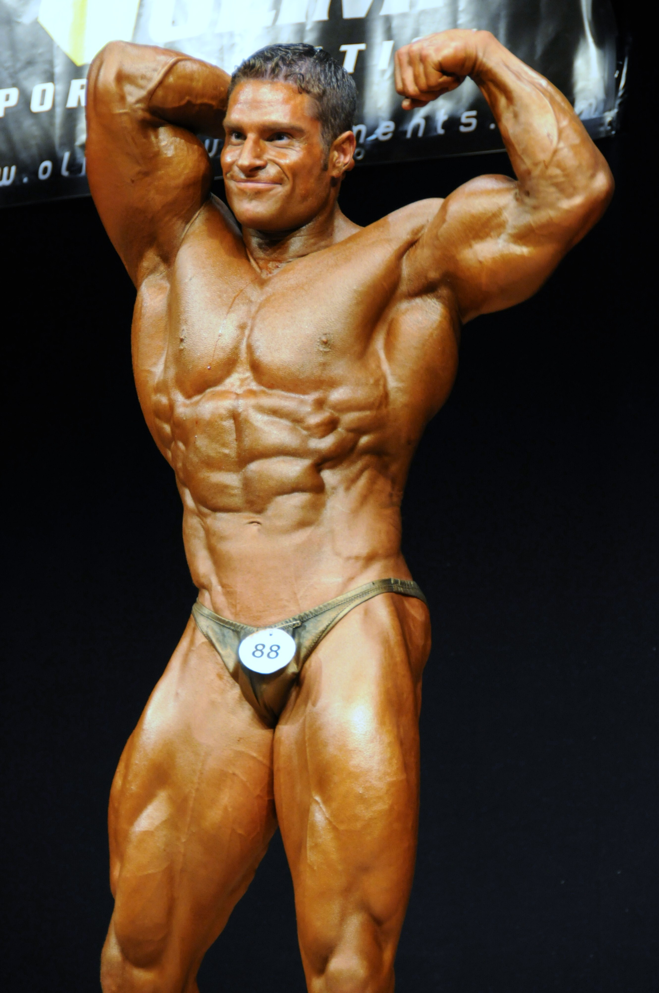 David Hoffmann, Deutscher Meister 2008